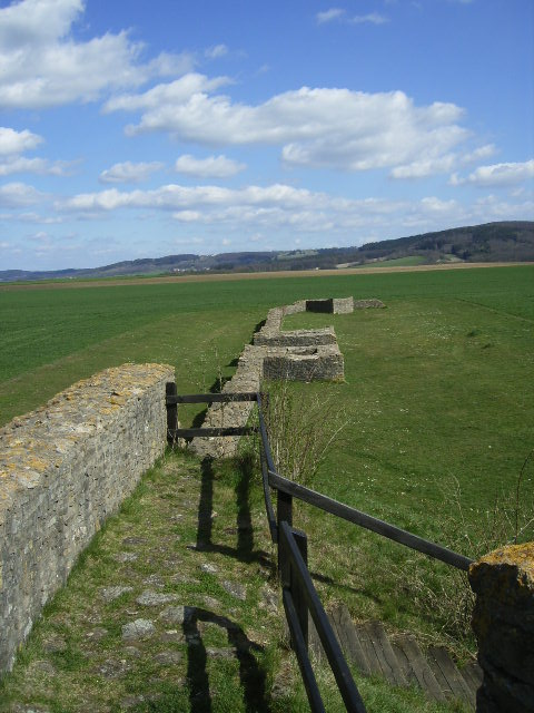 Roman fort Sablonetum (Limes Germanicus) near Ellingen, Middle Franconia, Germany